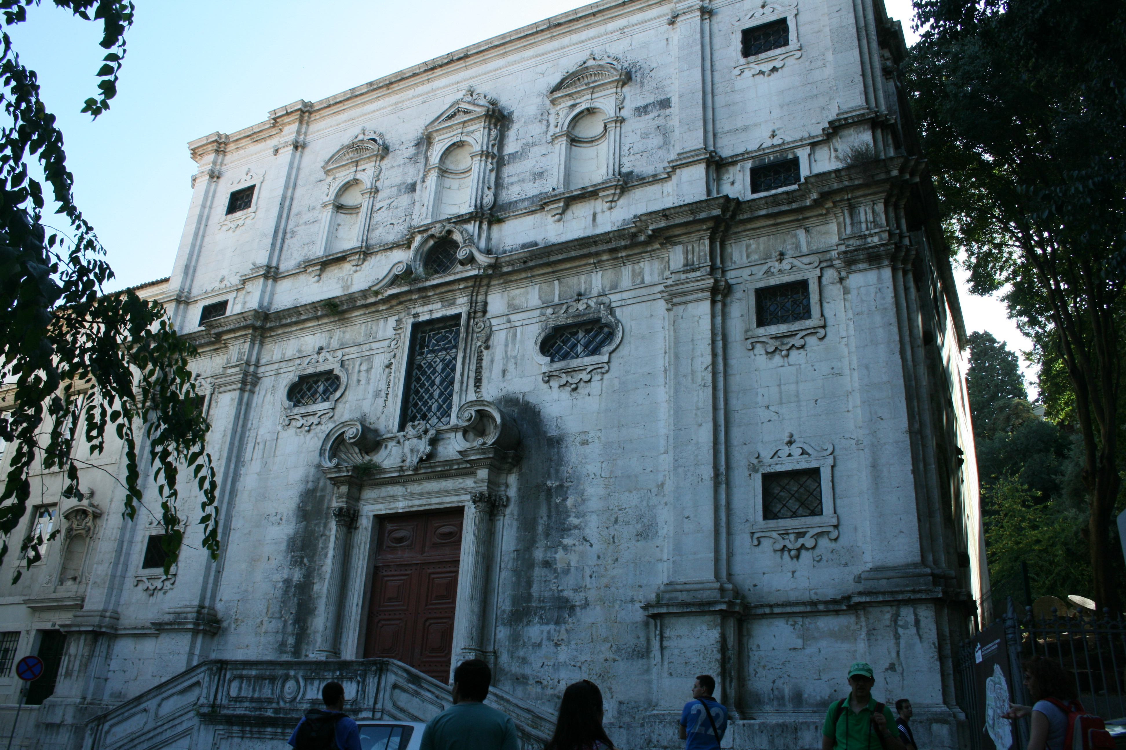 This file was uploaded for Wiki Loves Monuments in Portugal with the unique identifier 70522.